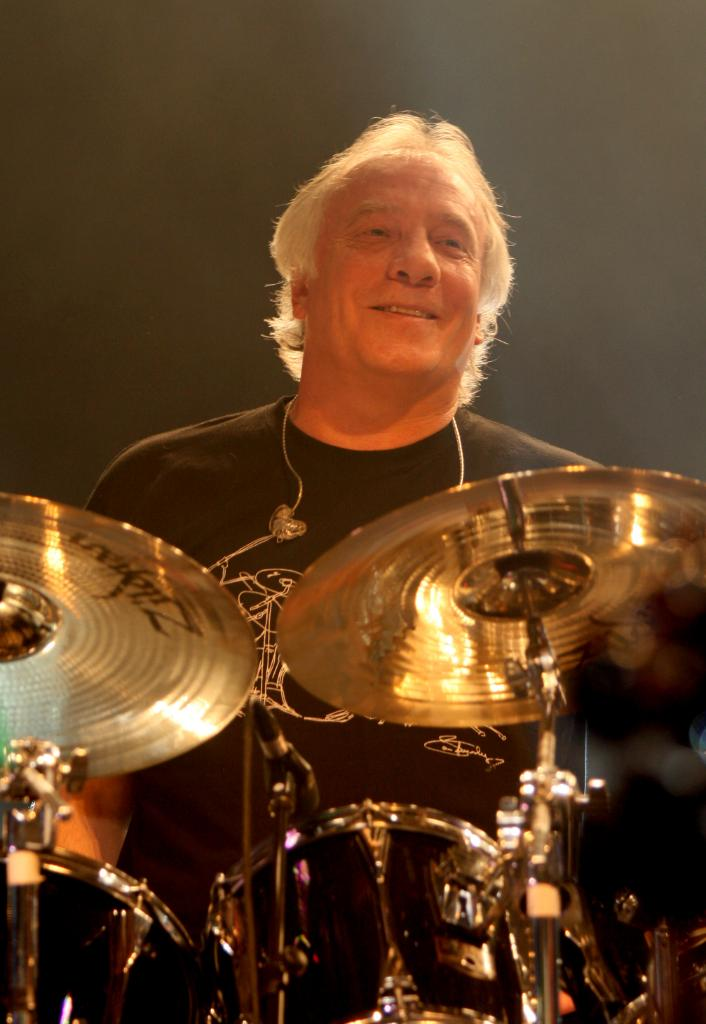 Ian Mosley takes a bow behind his drums onstage with Marillion at their 2009 weekend festival in Montreal, Canada.